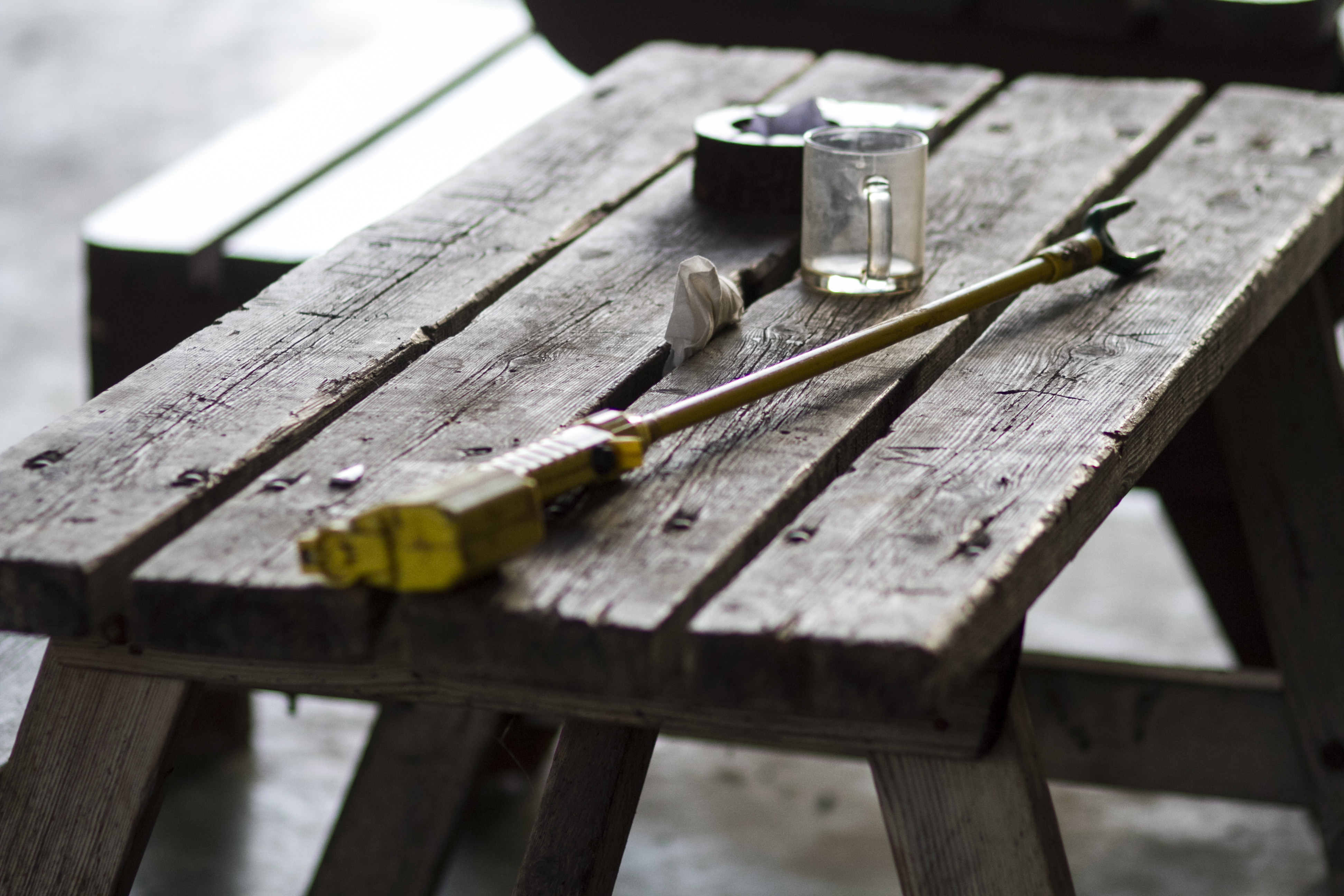 shoker